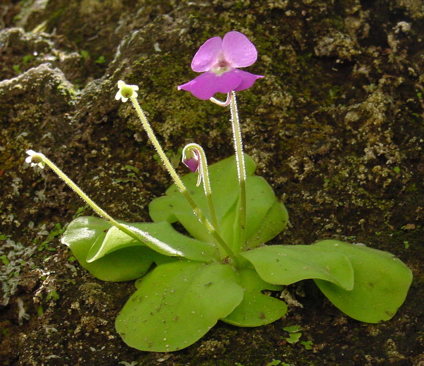 Pinguicula elizabethiae in situ at Toliman Canyon, Hidalgo state, Mexico